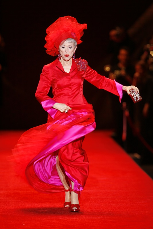 Rita Moreno at The Heart Truth Fashion Show 2008